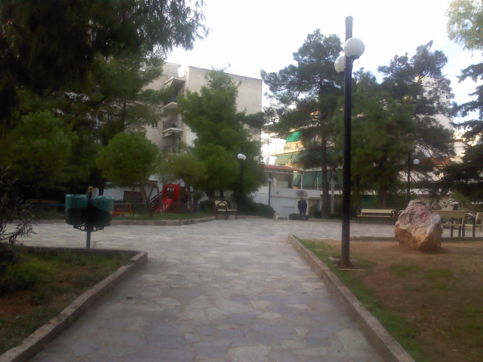 Square Panagitsa Inepolis